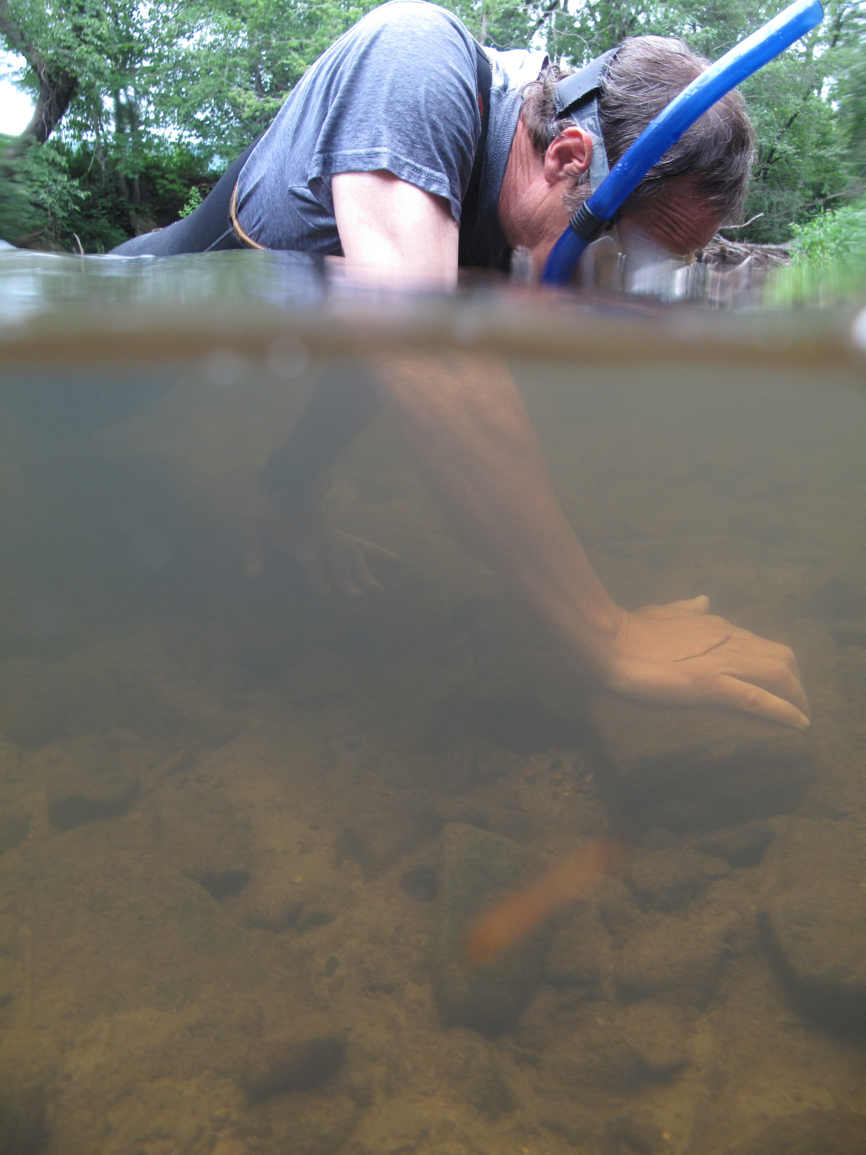 In a shallow river the best way to search for mussels is by snorkeling, which provides biologists with the best view of the stream bottom, where mussels can easily blend in with the sand, gravel, and cobble. Here biologist John Fridell is searching for mussels. Credit: Gary Peeples/USFWS